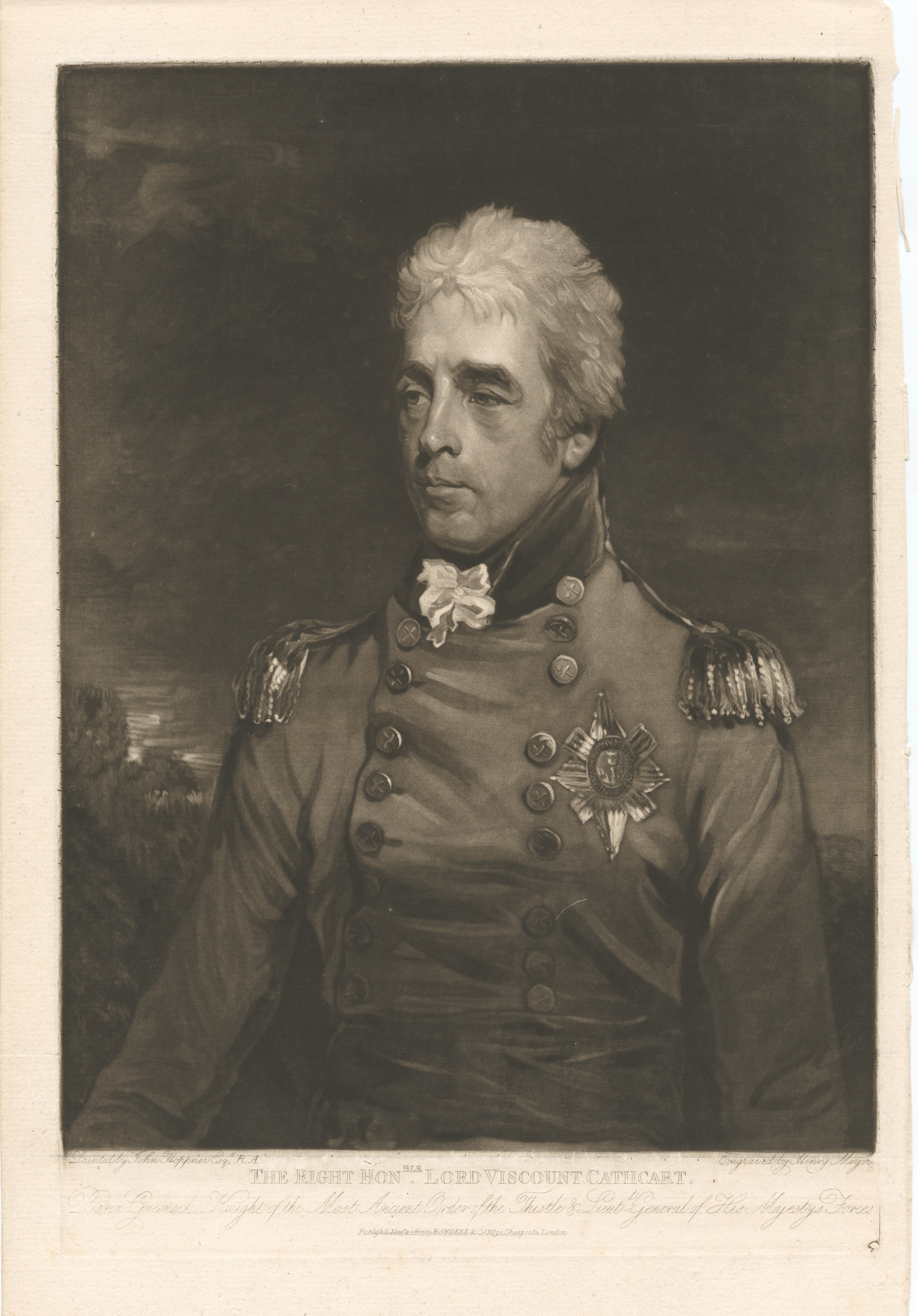 Includes some photomechanical reproductions. Printmakers include Francesco Bartolozzi, Henry Bryan Hall and Alexander Hay Ritchie. Title from Calendar of Emmet Collection. EM7563 Statement of responsibility : Henry Meyer